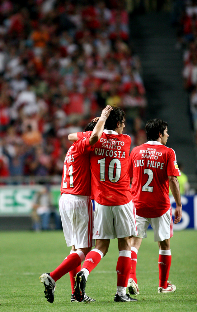 Benfica players